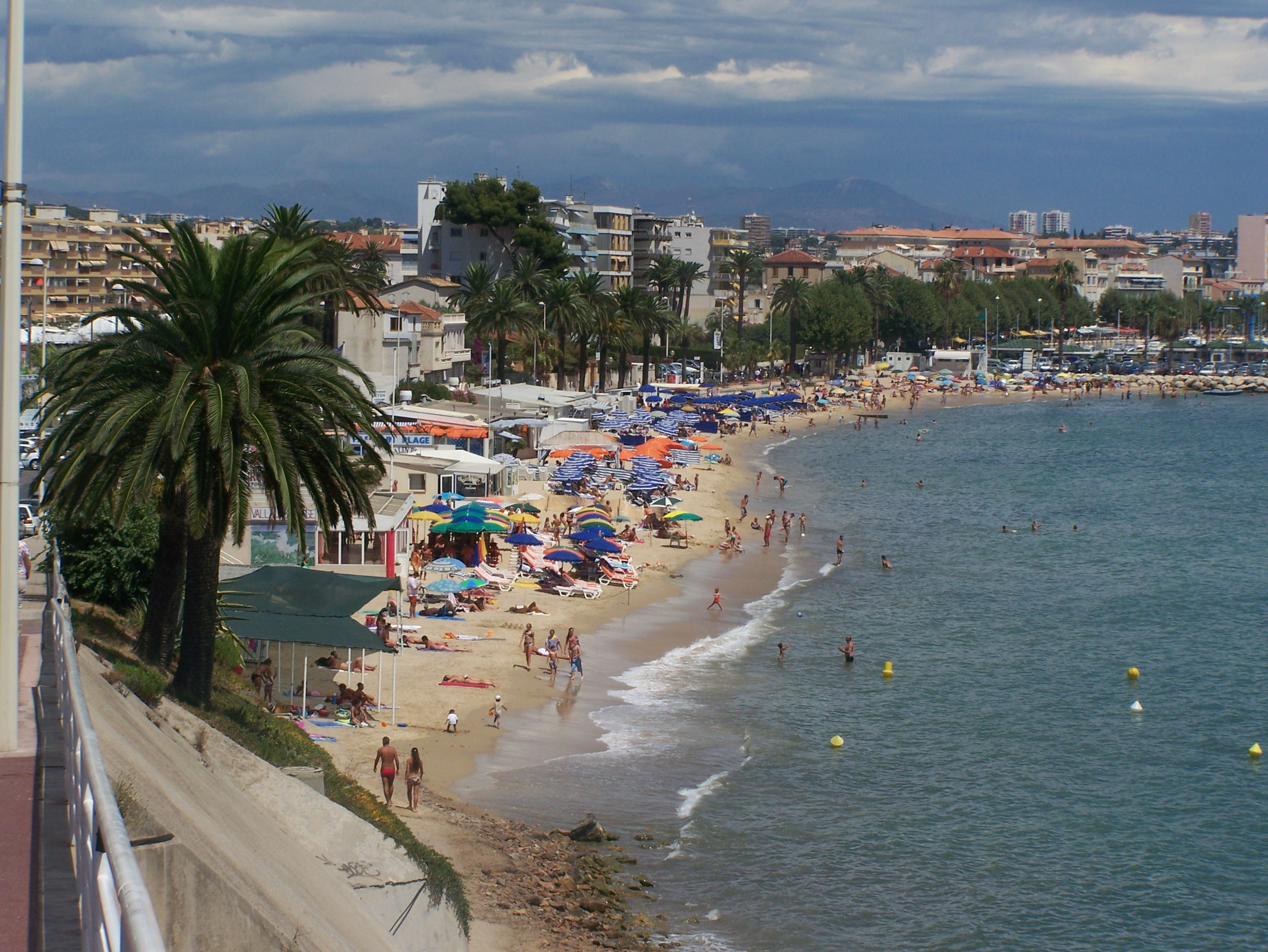 The bay of the city of Golfe Juan, in the south of France.